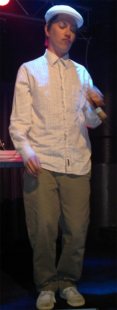 Nopsajalka from Elokuu performing at Bar Kino, Pori, Finland.